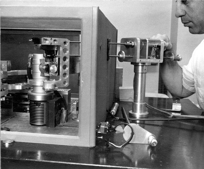 Isidore Adler, chemist, operates a gonimeter used for x-ray fluorescence analysis of individual grains of mineral specimens, Geologic Division, U.S. Geological Survey, Washington, D.C. 1958. Lower right photograph page 36, Images of the U.S. Geological Survey, 1879-1979. URL